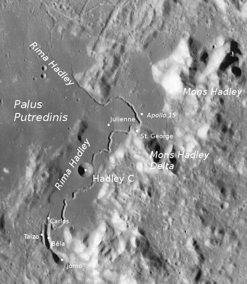 Rima Hadley with Apollo 15 landing site (detail of LROC - WAC global moon mosaic)